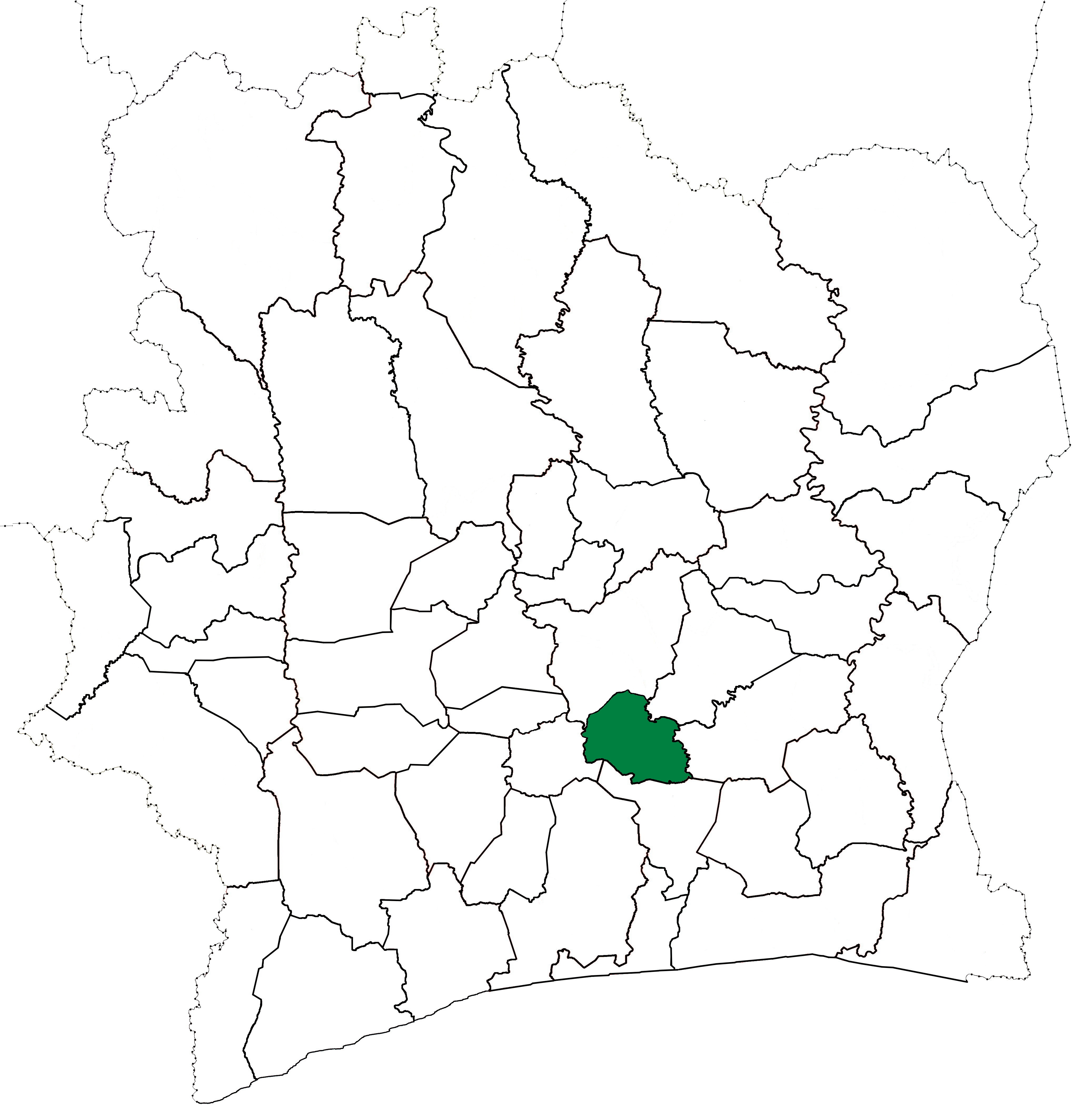 Locator map for Toumodi Department in Côte d'Ivoire when it was created in 1988. Toumodi Department kept these boundaries until 2012, but other boundary changes to subdivisions of Côte d'Ivoire began to be made in 1995.